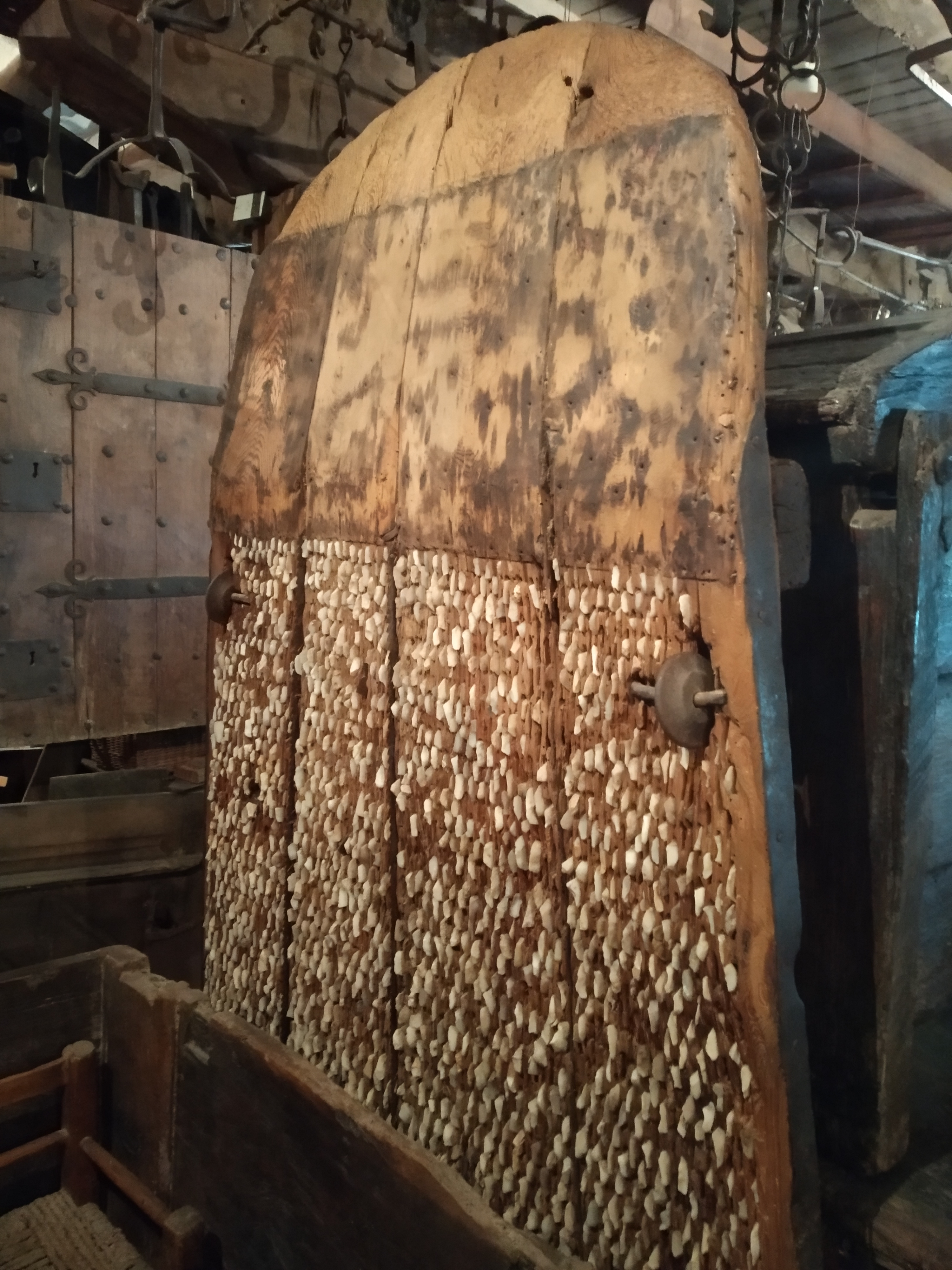 Threshing board at the Ethnographic Museum of the Kingdom of Navarre